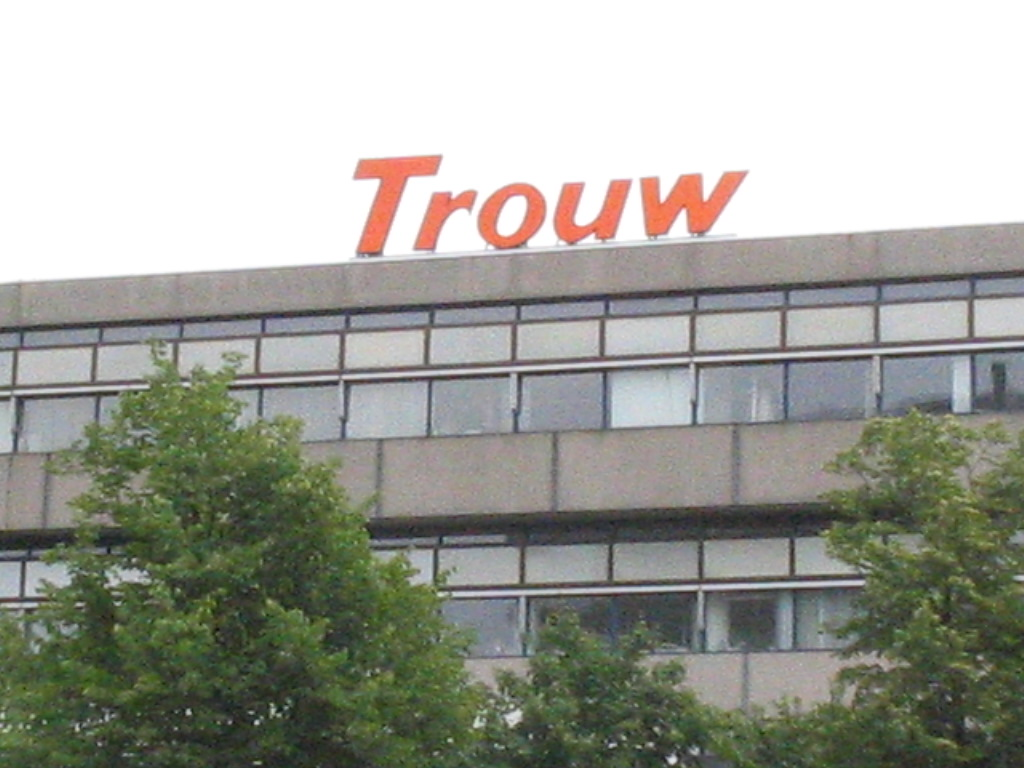 Logo Trouw (newspaper), Amsterdam (Netherlands)